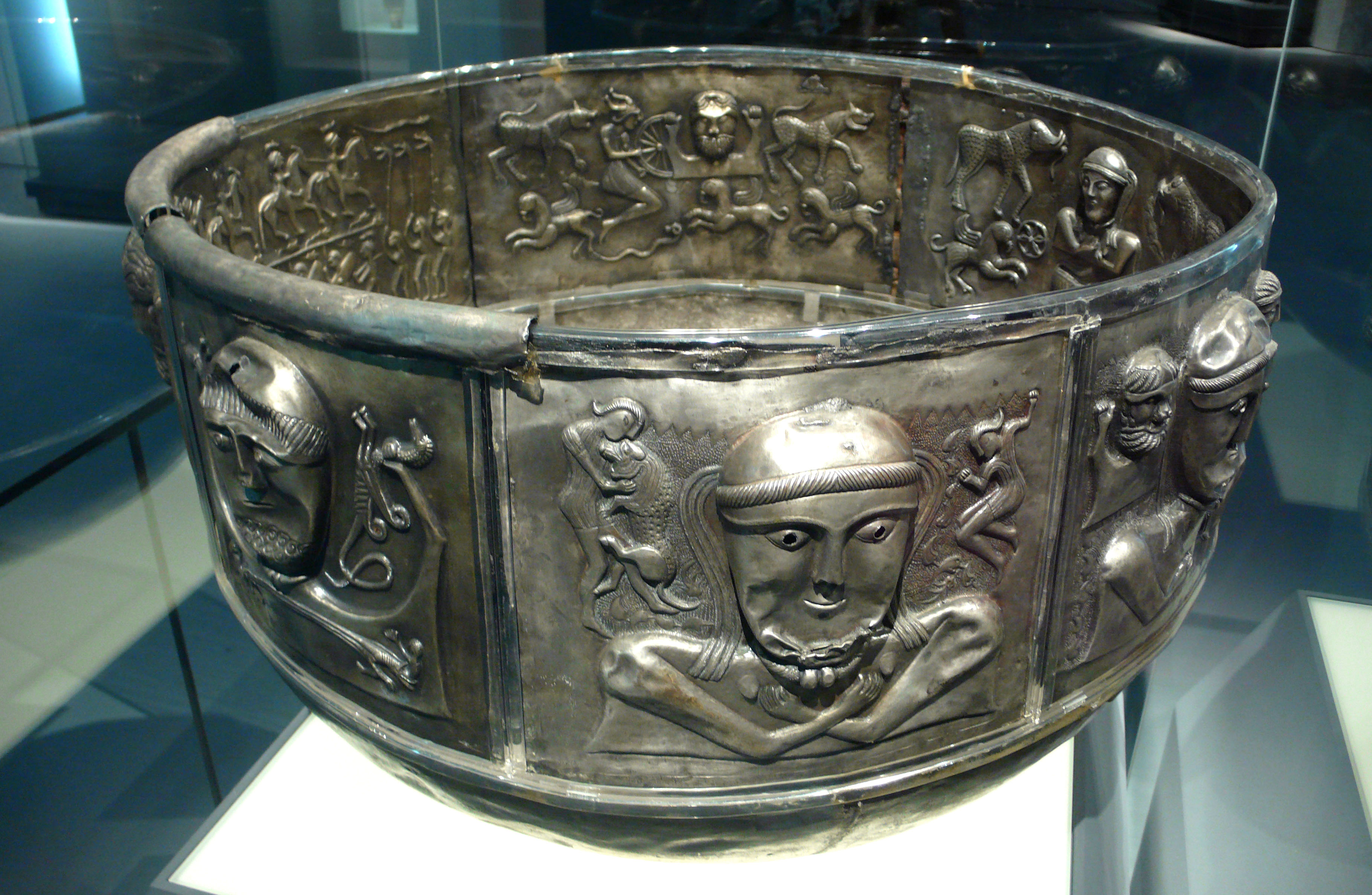 Gundestrup, Denmark. 150-0 BC This cauldron is made from 13 silver plates. The hammered and gilded plates weigh almost 9 kg. On the outside, large deities are accompanied by small humans, animals and mythical creatures in pairs. Interior shows scenes populated with many figures, both human and animals. One of them shows a parade of warriors carrying a carnyx, a Celtic trumpet. Kunst der Kelten, Historisches Museum Bern. Art of the Celts, Historic Museum of Bern.